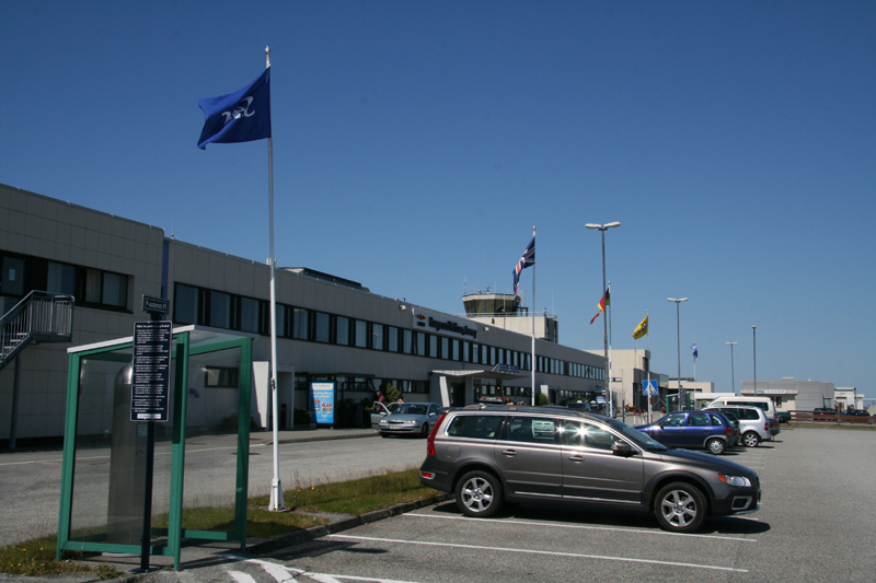 Haugesund Airport. Outside view.